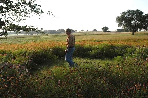 President Bush takes a walk among wild flowers at his Prairie Chapel Ranch in Crawford, Texas, May 23, 2003.